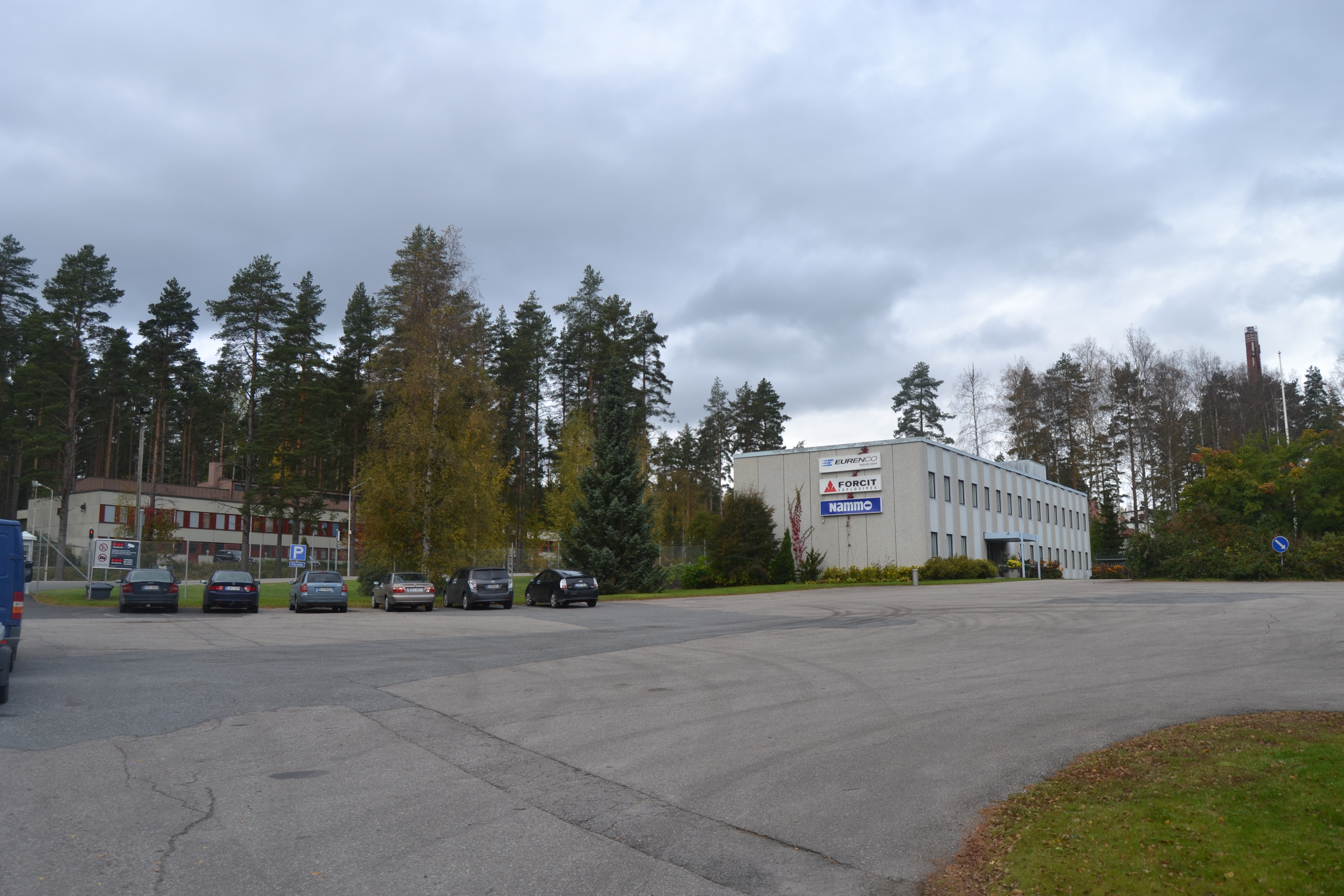 Vihtavuori gunpowder plant in Laukaa, Finland